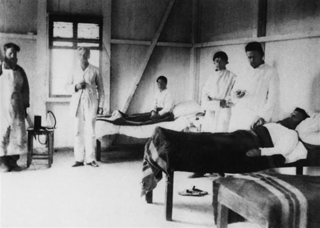 Original caption:The sickbay where patiants with cholera were treated.